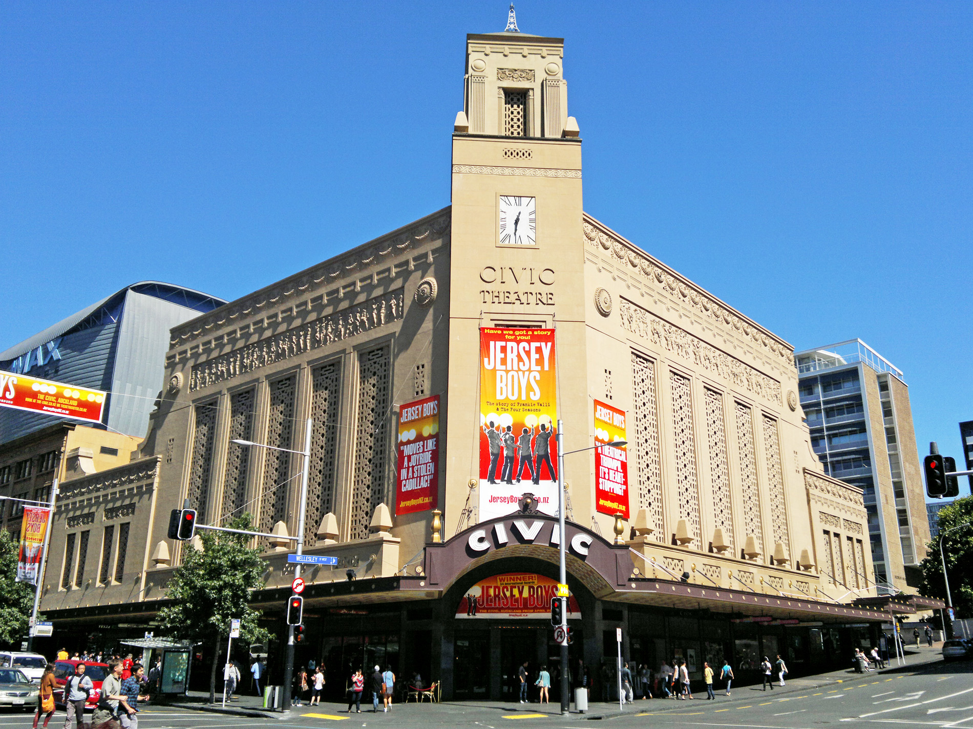 Civic Theatre in downtown Auckland, New Zealand